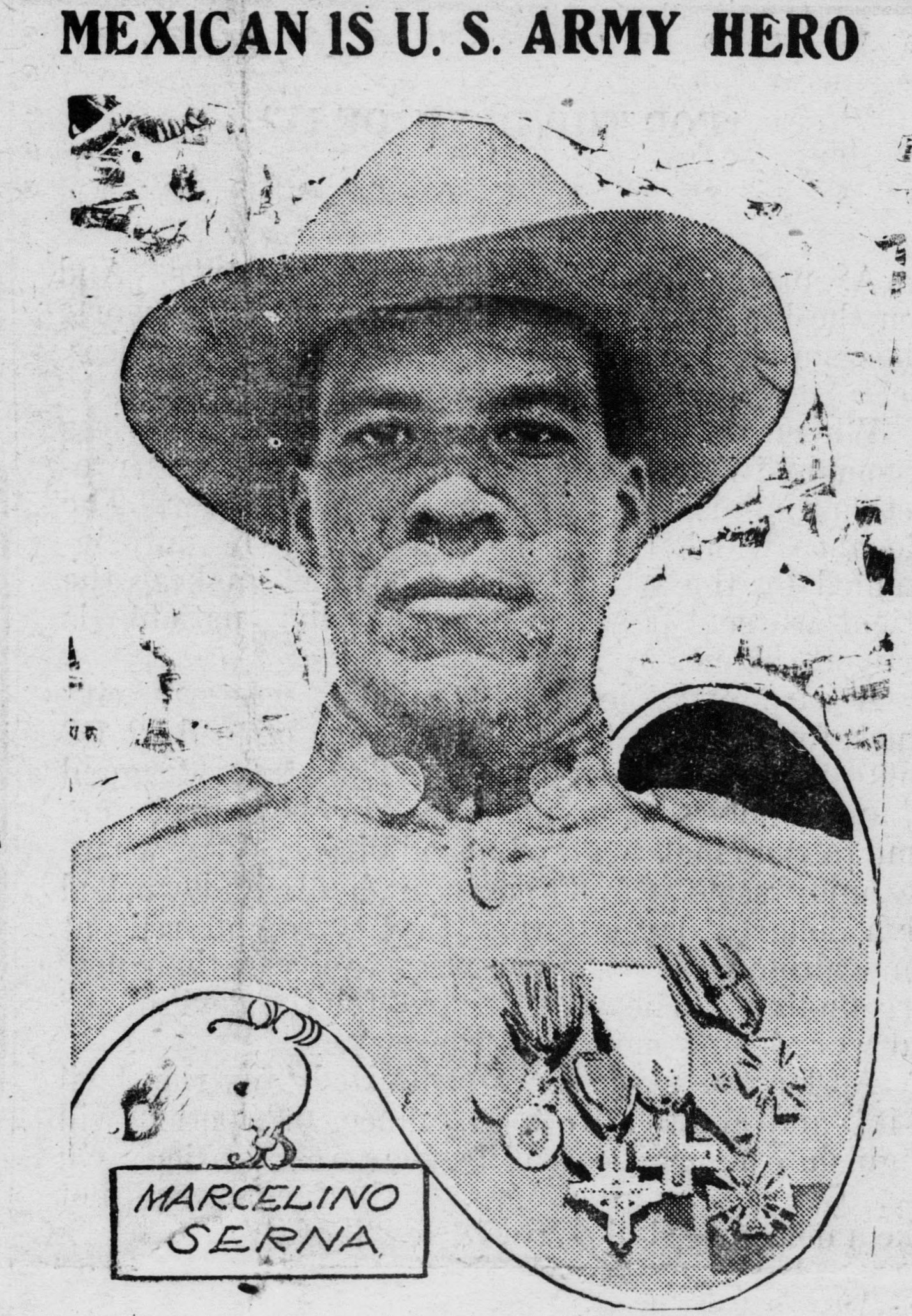 Caption: "RUIDOSO, Tex.— The most decorated man in the U. S. Army.Was the remark of Maj. Gen. Robert L. Howze as he watched Brig. Gen. James B. Erwin present three medals for bravery to Pvt. Marcelino Serna, a Mexican. Serna now wears the Croix de Guerre with palm, the French Medaille Militaire, the Italian war cross, and the Distinguished Service Cross."